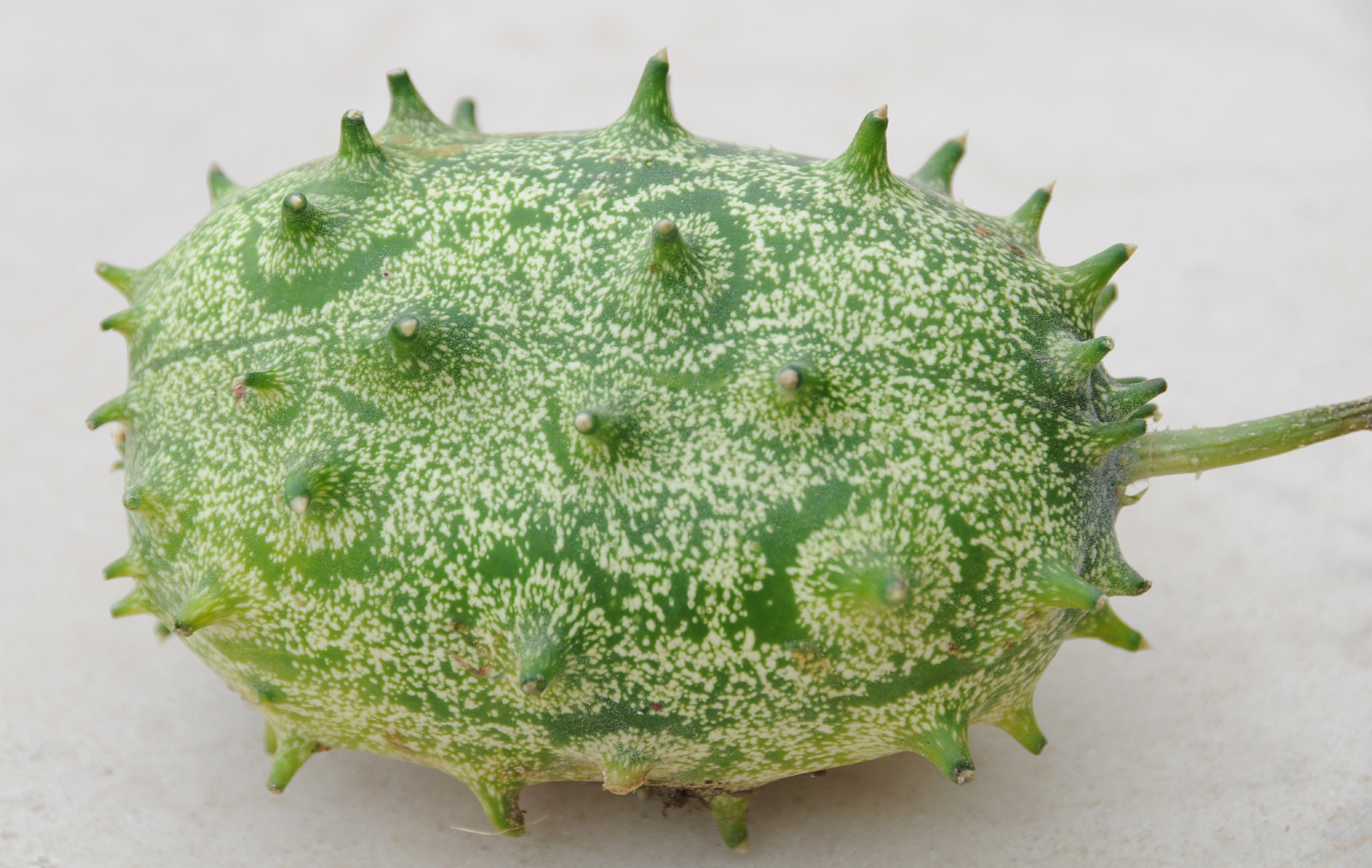 A Cucumis metuliferus, or Horned melon, cultivated in Esporões, Braga, Portugal.